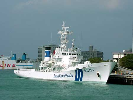 JCG(Japan Coast Guard) PL03 Kudaka